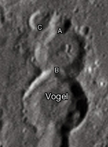 Vogel lunar crater as seen from Earth with satellite craters labeled